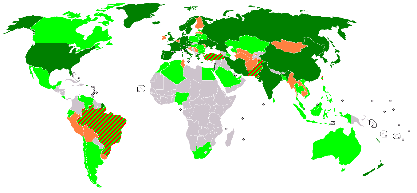 Dark green - orbital launch&satellite; light green - satellite; red - ballistic missile or development of small launch lift vehicle at advanced stage; orange - satellite development